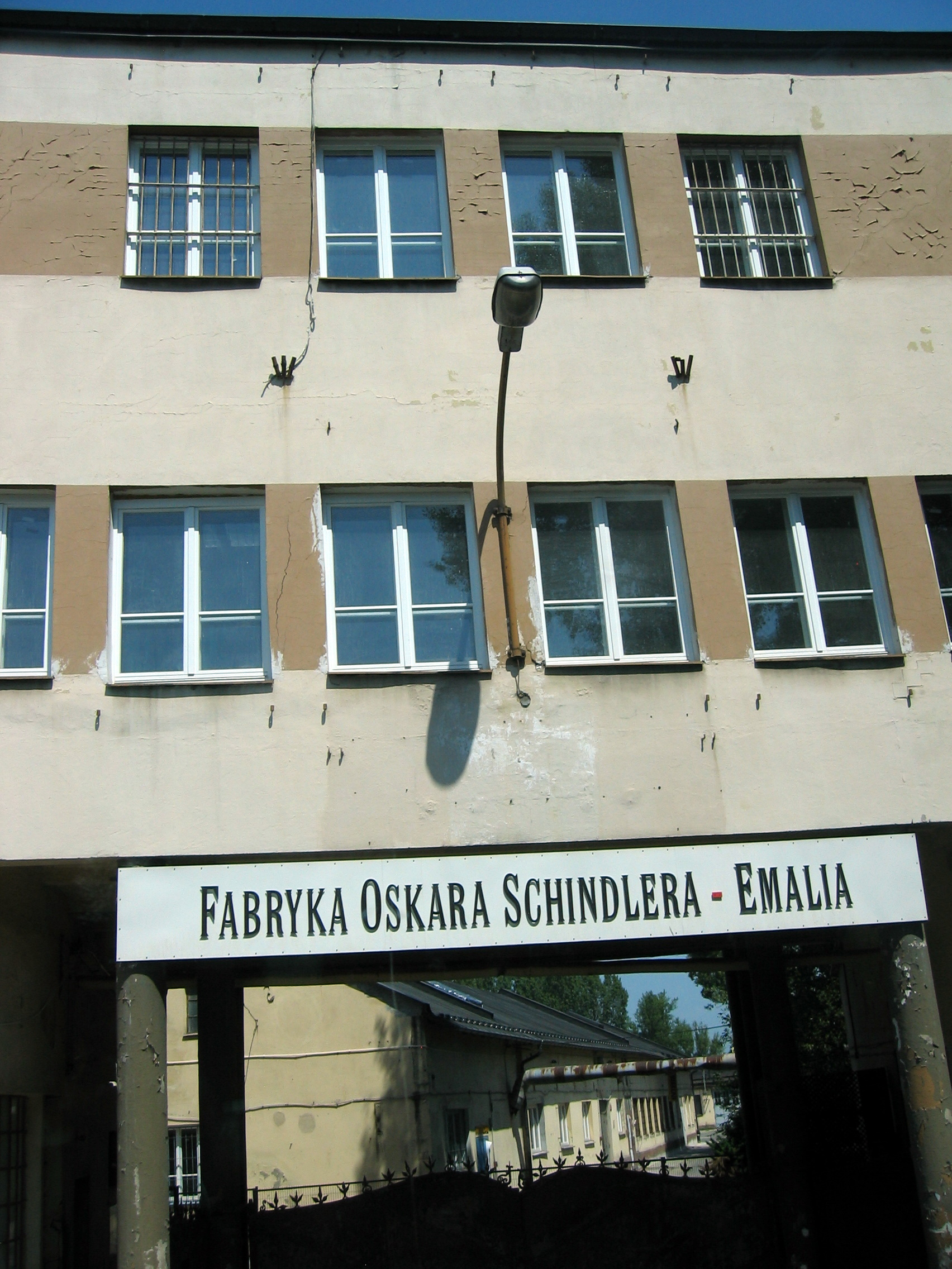 Oskar Schindler's Enamel Factory in Kraków, Poland. I took this from a bus in Poland in the summer of 2006. This is the factory made famous by the movie Schindler's List. It is available on flickr at (Note this URL is now private. Resurgent insurgent 19:50, 10 June 2007 (UTC)) Feel free to do what you want with it.